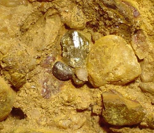 Diamond Locality: Diamantina, Jequitinhonha valley, Minas Gerais, Southeast Region, Brazil (Locality at ) Size: 7.4 x 5.3 x 4.0 cm. A RARE and DESIRABLE Brazilian specimen of a gemmy and glassy, 5 mm diamond crystal nestled amongst conglomerate river pebbles from the famous Diamantina River of Minas Gerais. SELDOM are such specimens preserved, for obvious reasons! Ex. Ed Swoboda collection. These alluvial diamonds, formed in the deep earth, brought to the surface and then deposited into conglomerates over time, are the reason this region of Brazil was named after an old time diamond rush! VERY RARE in this quality.